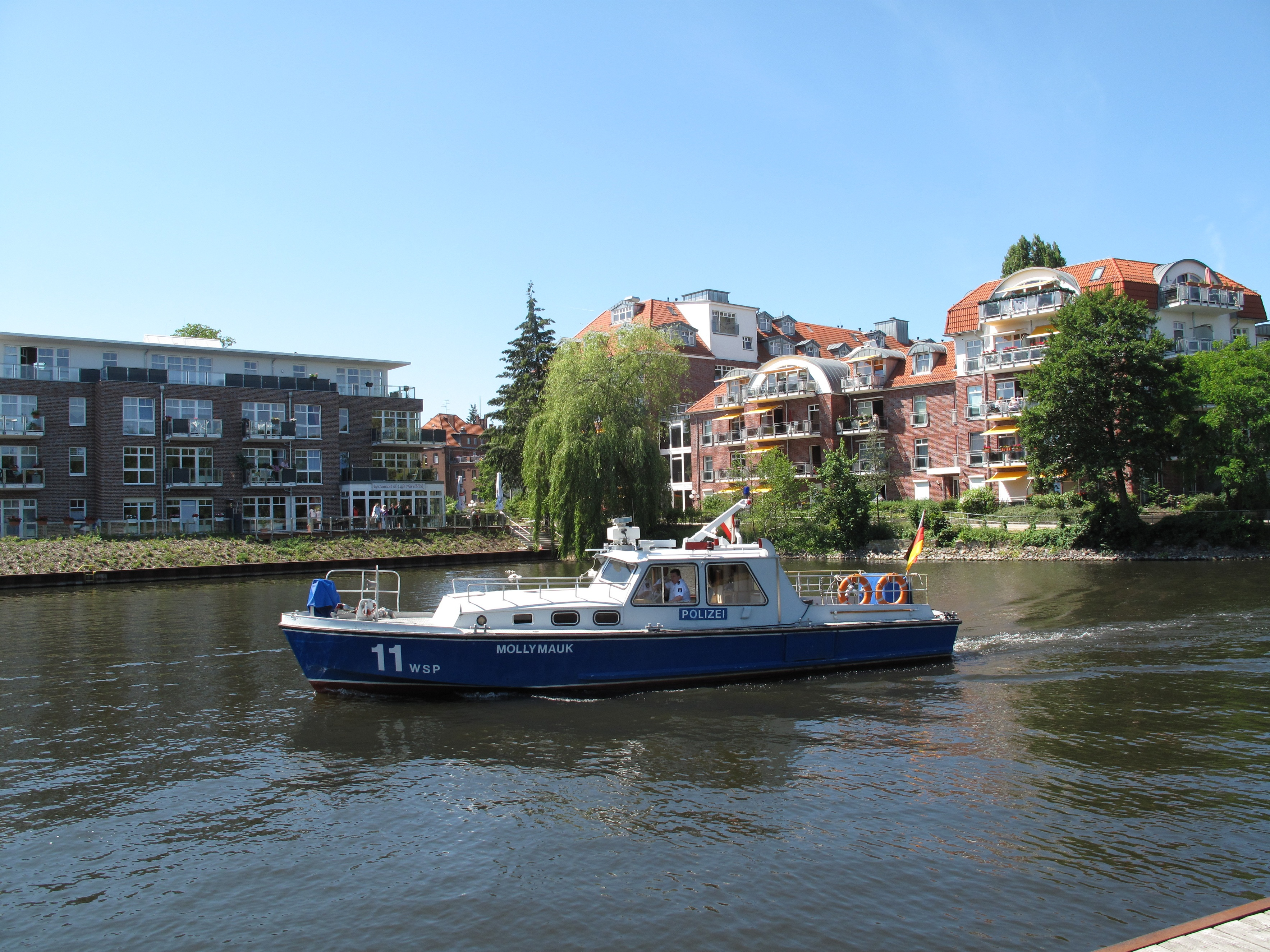 Police boat of the Berlin state police in the Nordhafen Spandau. The Nordhafen Spandau (north harbour Spandau) is a branch canal of the river Havel and a former inland harbour in Berlin, Borough Spandau, locality Hakenfelde.